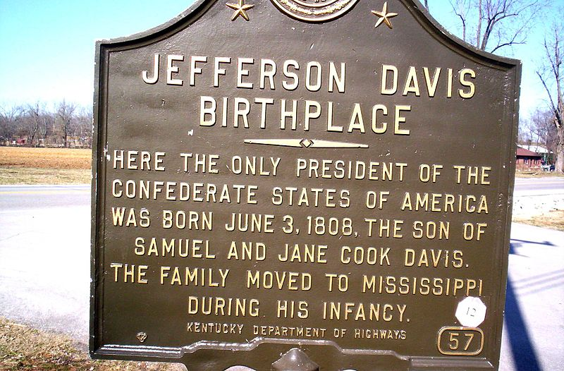 JEFFERSON DAVIS KENTUCKY HISTORIC MARKER AT THE JEFFERSON DAVIS BIRTHPLACE MONUMENT IN FAIRVIEW-KENTUCKY OF TODD COUNTY-KENTUCKY